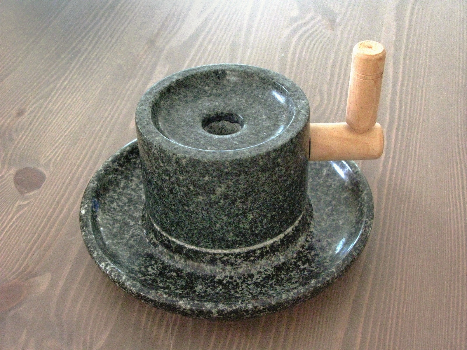 A mill you can use at home for turning tencha into matcha